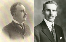 War Correspondents of the Great Sioux War of 1876-1877. Left to right: John F. Finerty and Robert Edmund Strahorn.